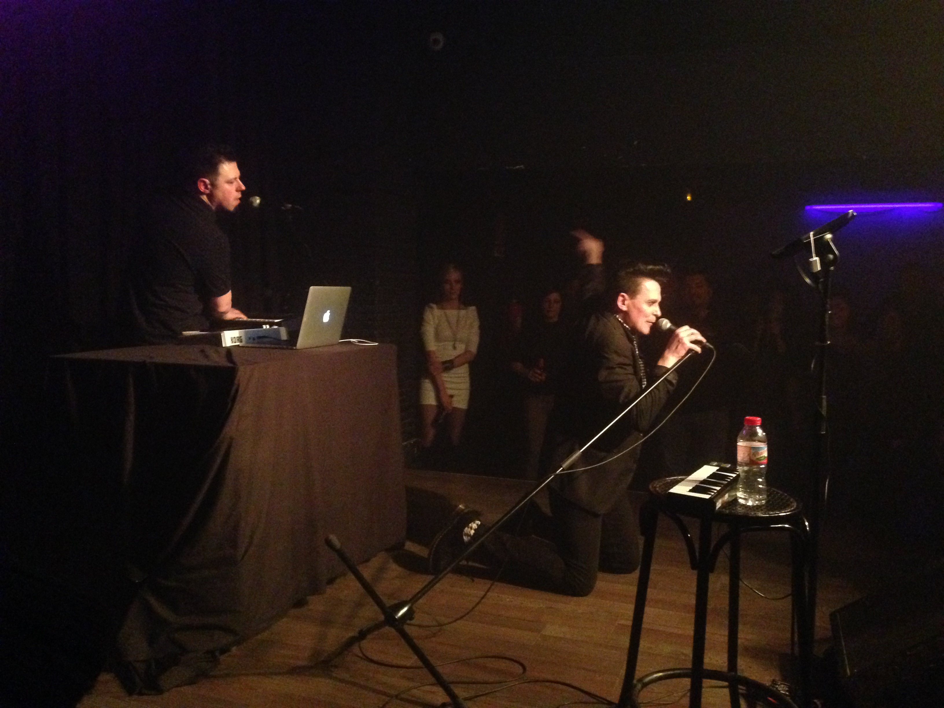 Elegant Machinery, concert at "Sala Zero" (Tarragona) dated 23.01.2016